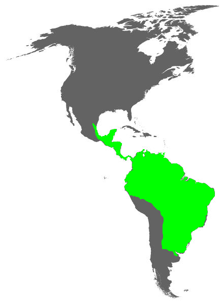 Distribution of the family Thamnophilidae.